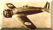 Italian Macchi C.200 fighter